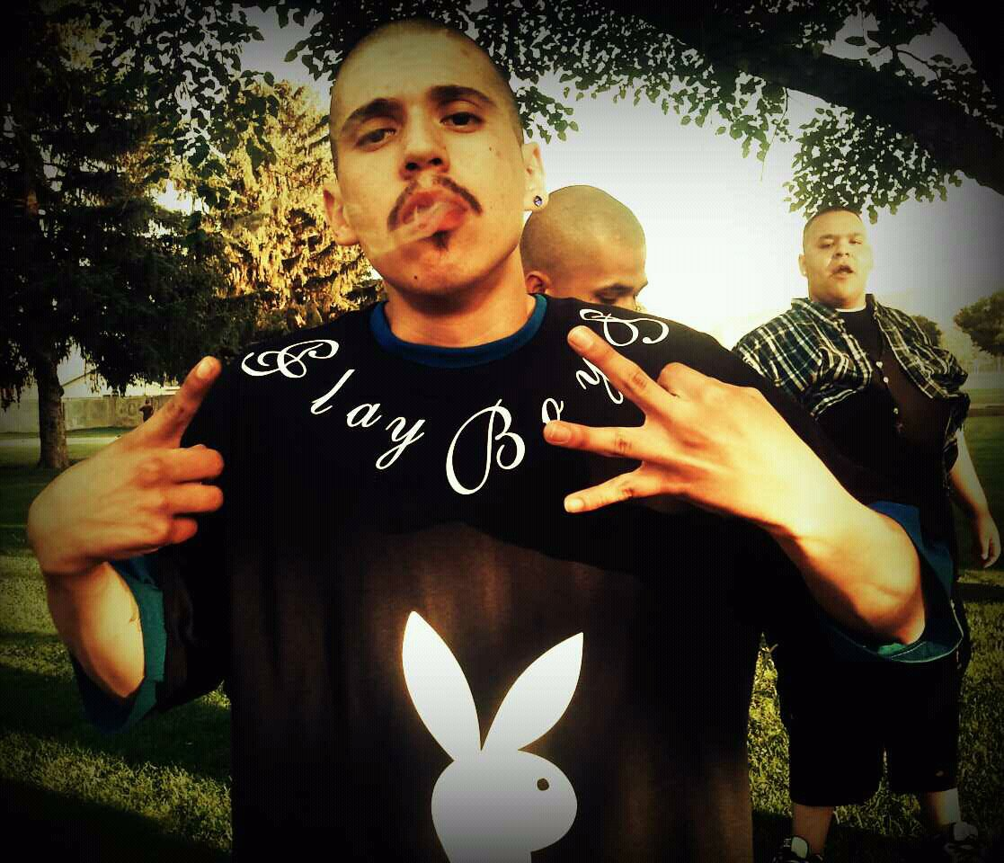 SS Playboys (Playboys gang) In Yakima, Washington